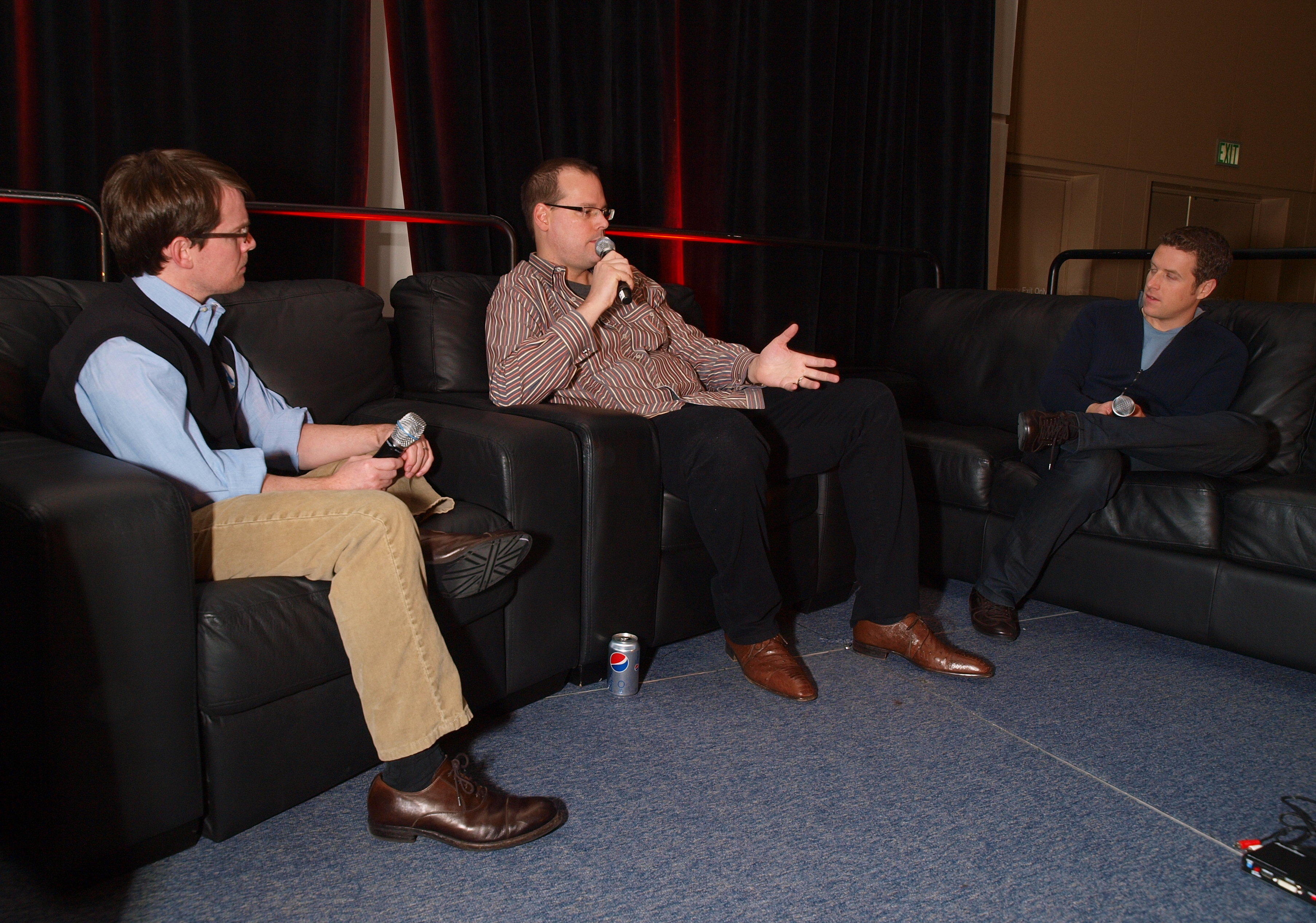 FIRESIDE CHAT: BUILDING A BLOCKBUSTER FRANCHISE; Ray Muzyka (BioWare Corp.), Geoff Keighley (Spike TV) and Joseph Staten (Bungie)